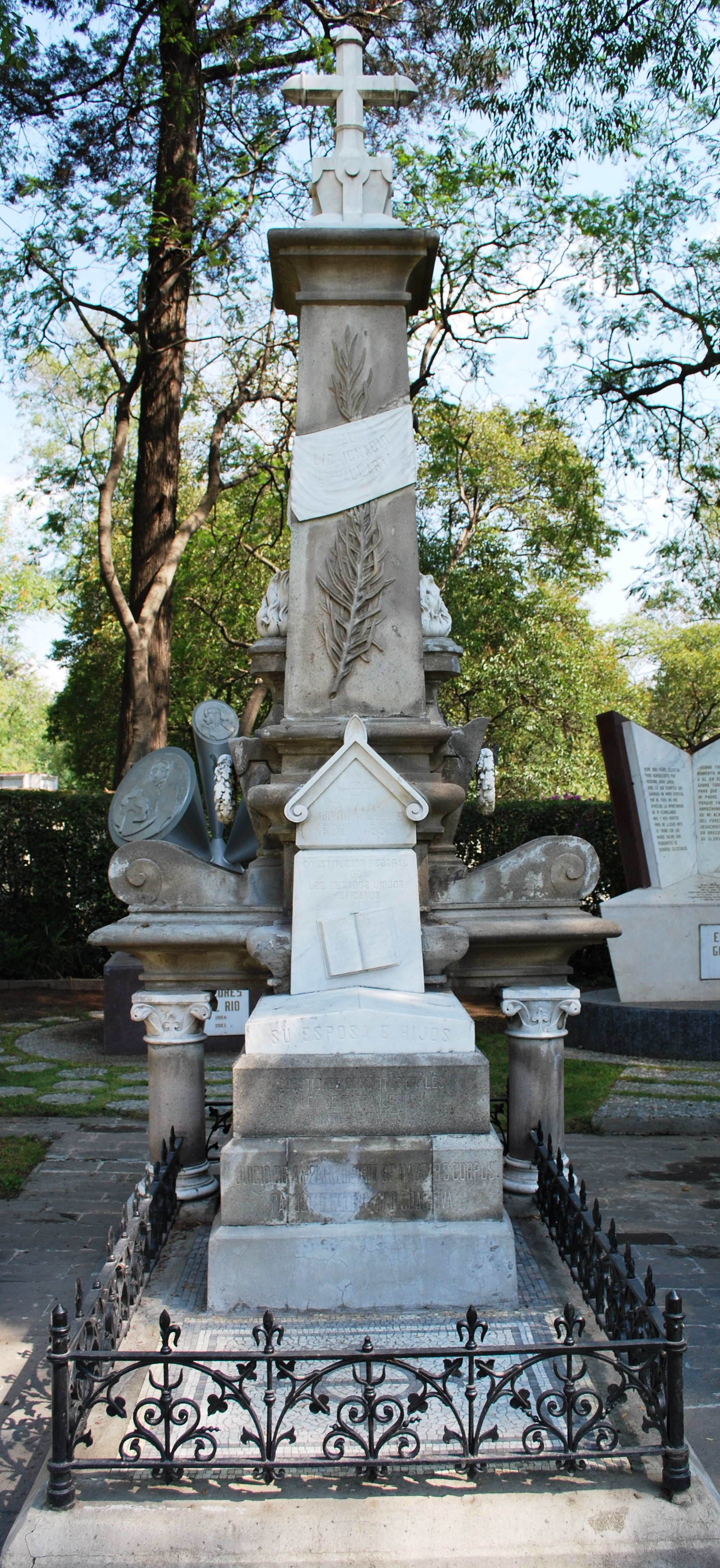 Tomb of Ignacio L Vallarta in the Panteon Civil de Dolores cemetery in Mexico City